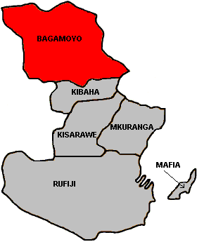 Created by Andrew Coe